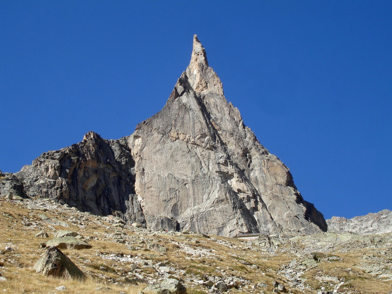 Aiguille Dibona (3131m), Massif des Écrins